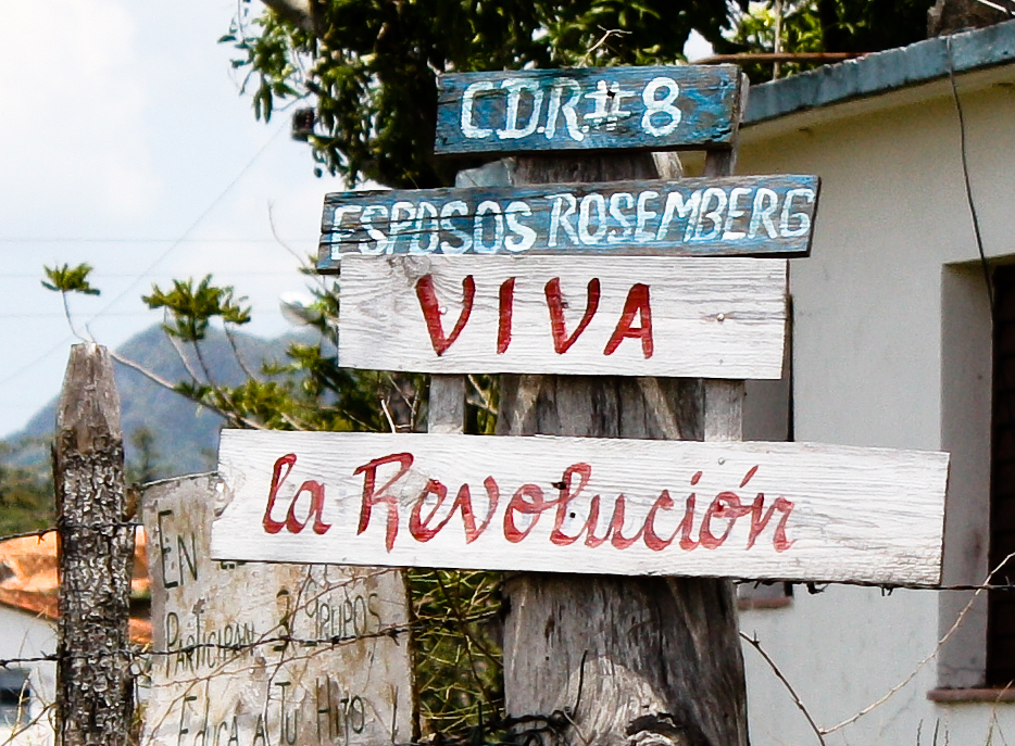 CDR sign in Pinar del Río, Kuba